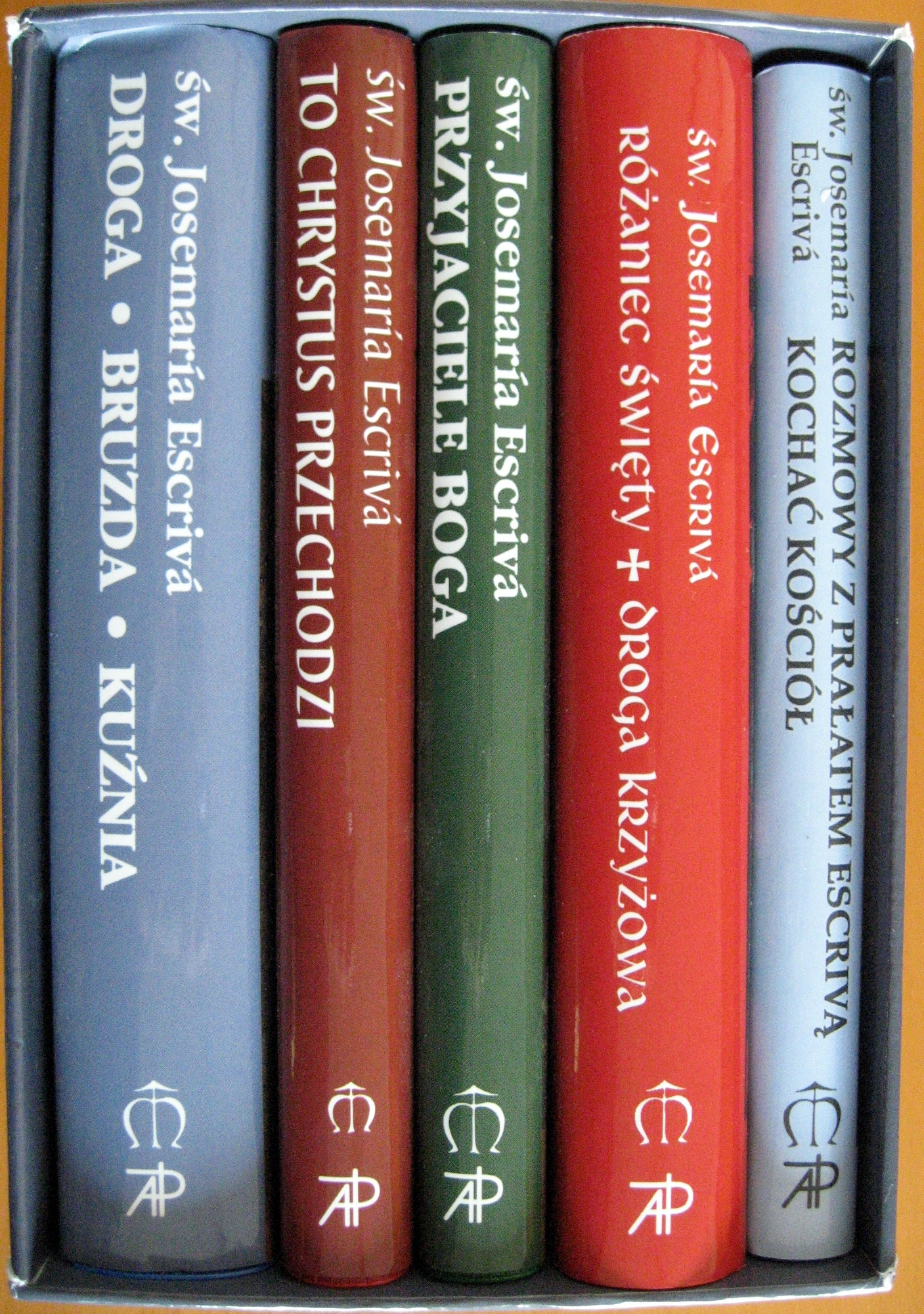 St. Josemaria Escriva's works in Polish